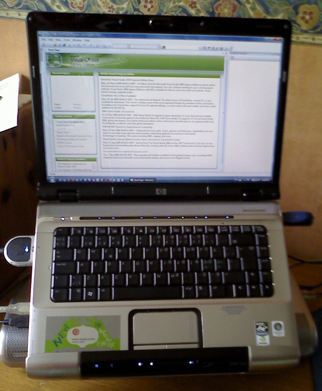 HP Pavilion dv6618eo Entertainment Notebook PC